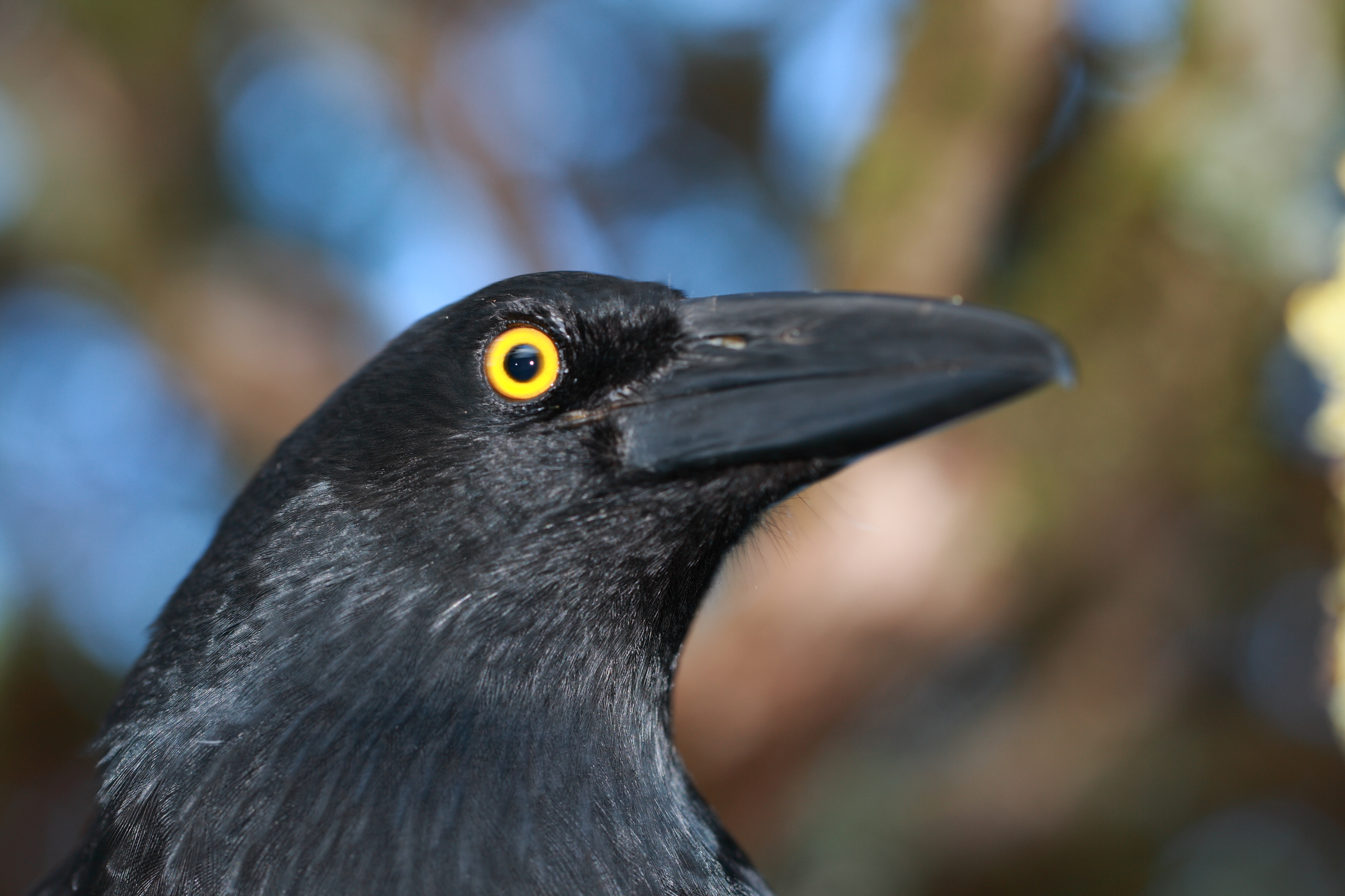 On the walk up Mount Gower on Lord Howe Island.